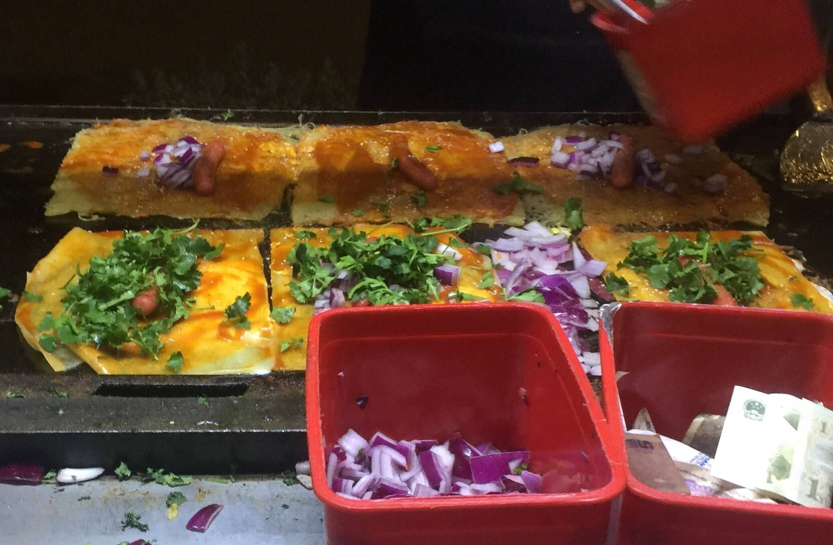 cook barbecue cold noodles